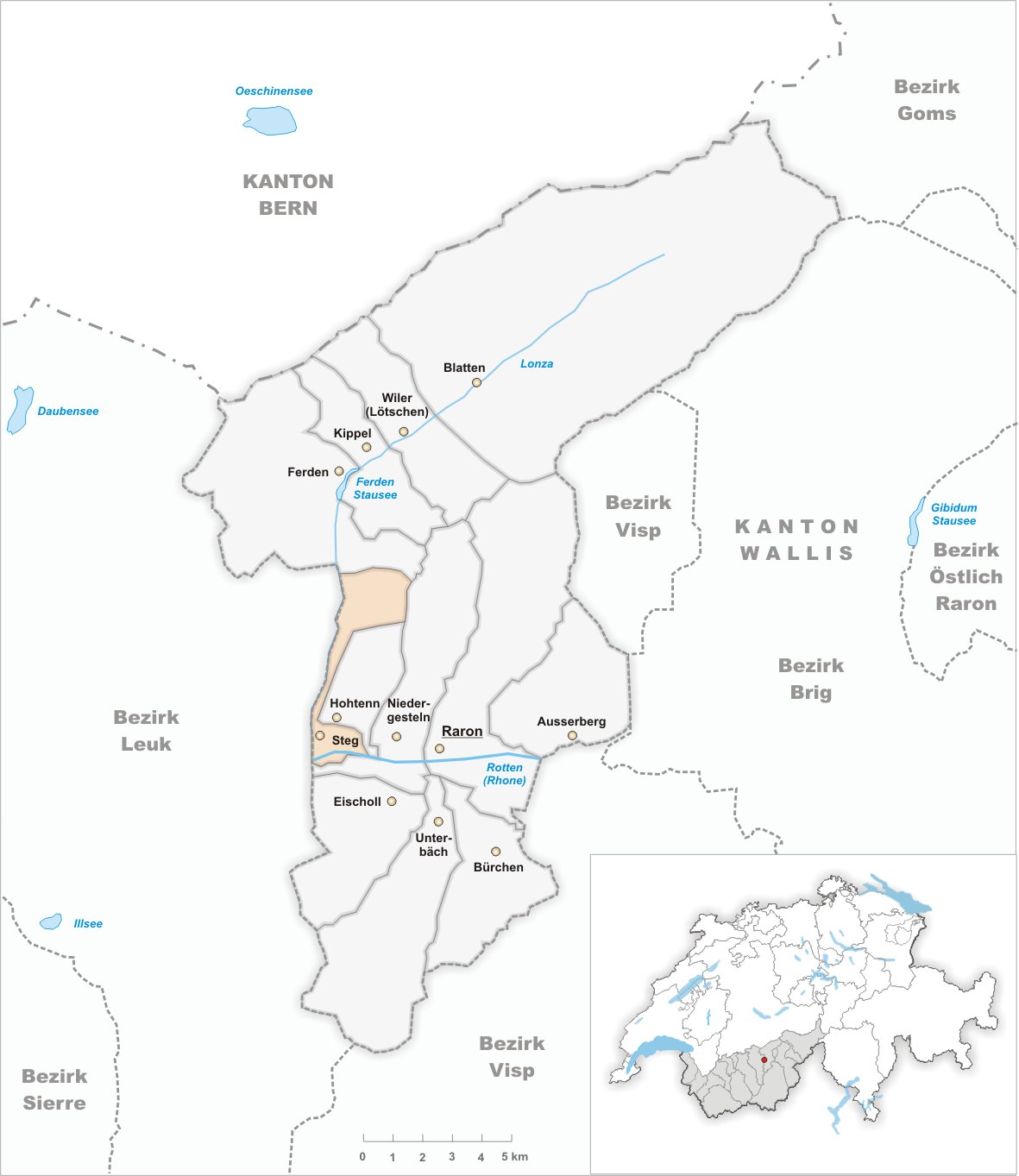 Municipality Steg